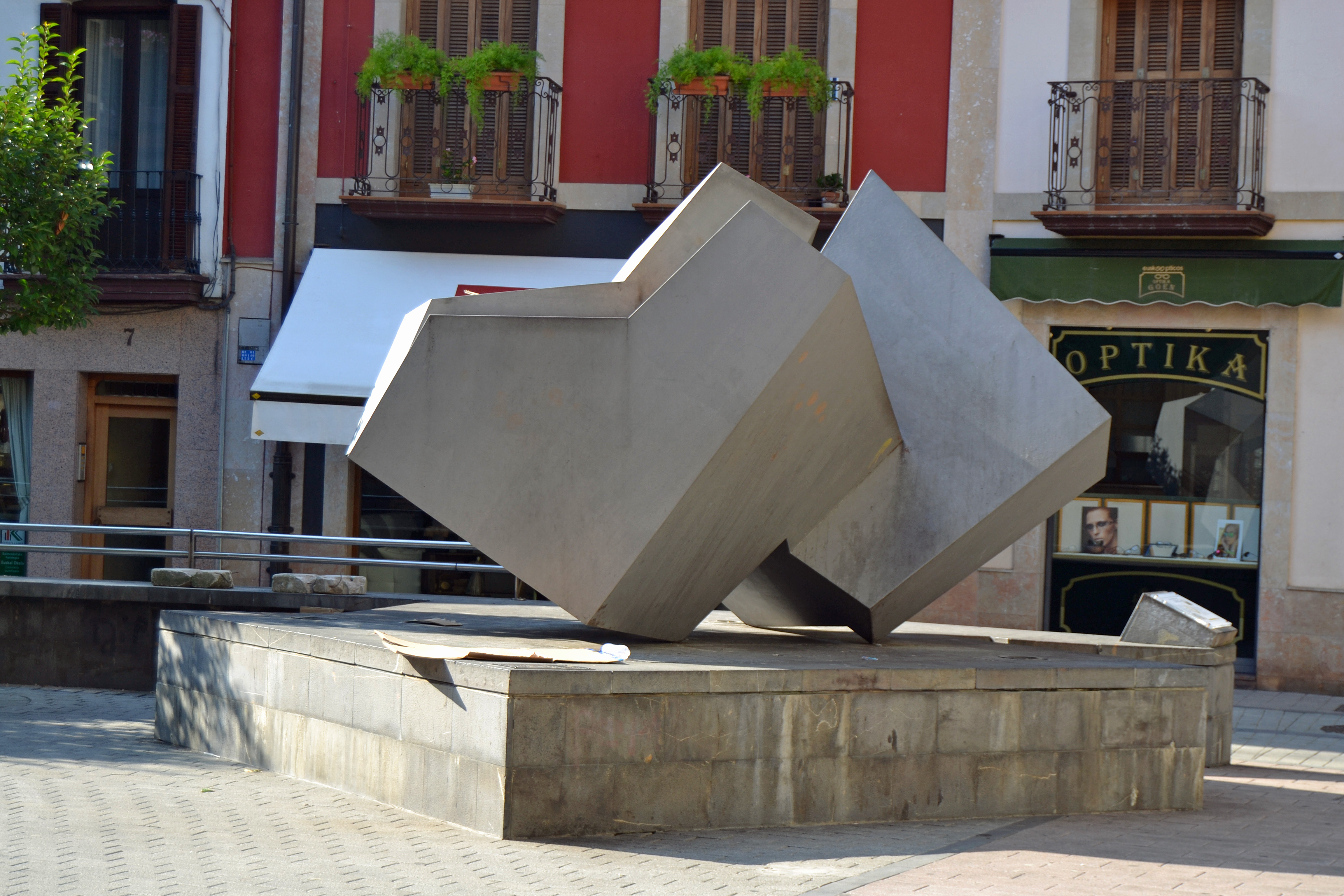 Oteiza's sculpture, Ordizia. gipuzkoa, Euskal Herria.